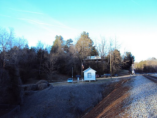 This is a picture looking north along the railroad tracks toward the intersection of Rt 617 or Rockfish River Rd.